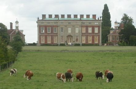 Wotton House, Wotton Underwood, Buckinghamshire, England